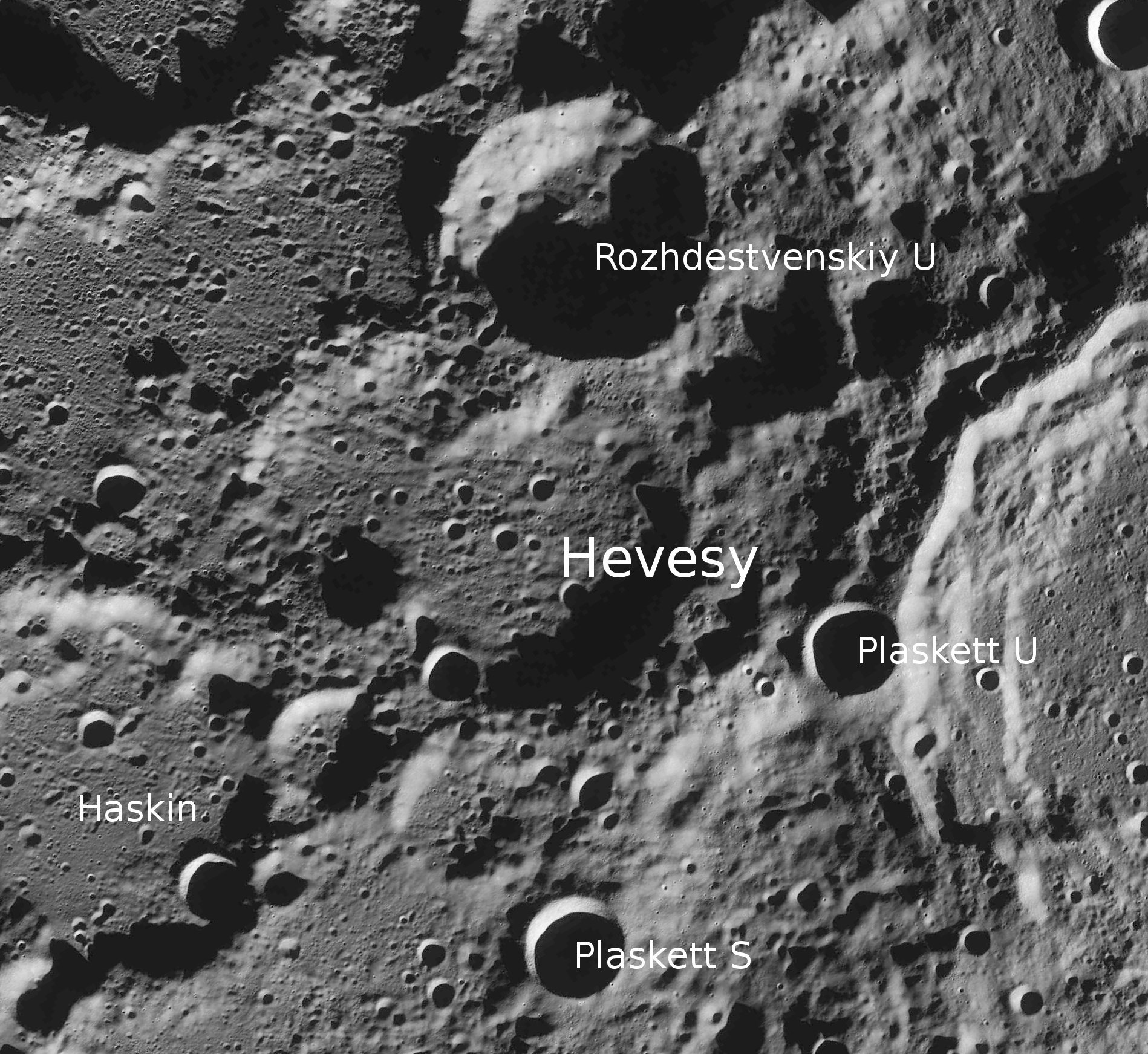 Moon crater Hevesy and surroundings (north at top; detail of LRO - WAC north pole mosaic)